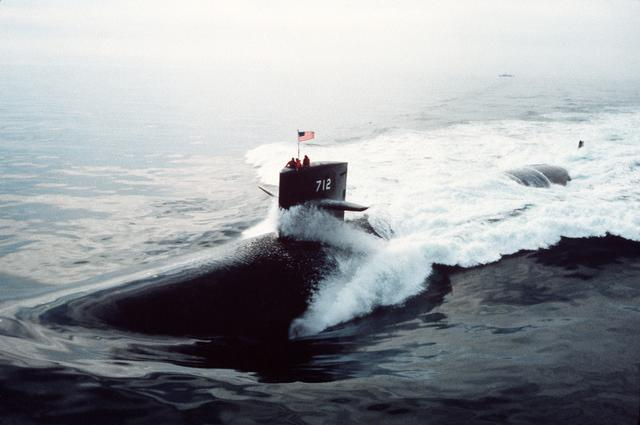 USS Atlanta (SSN-712) Source